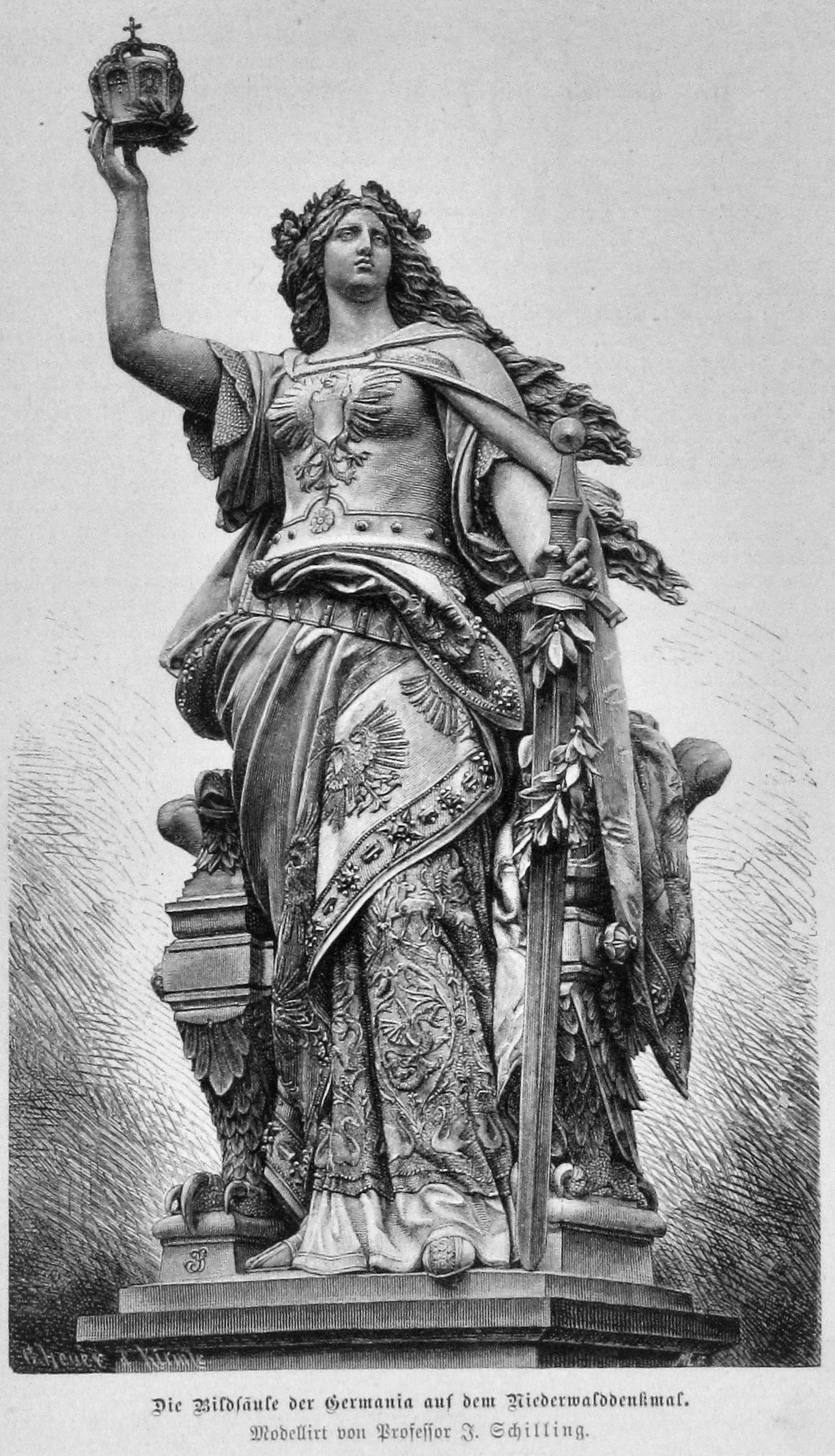 no caption